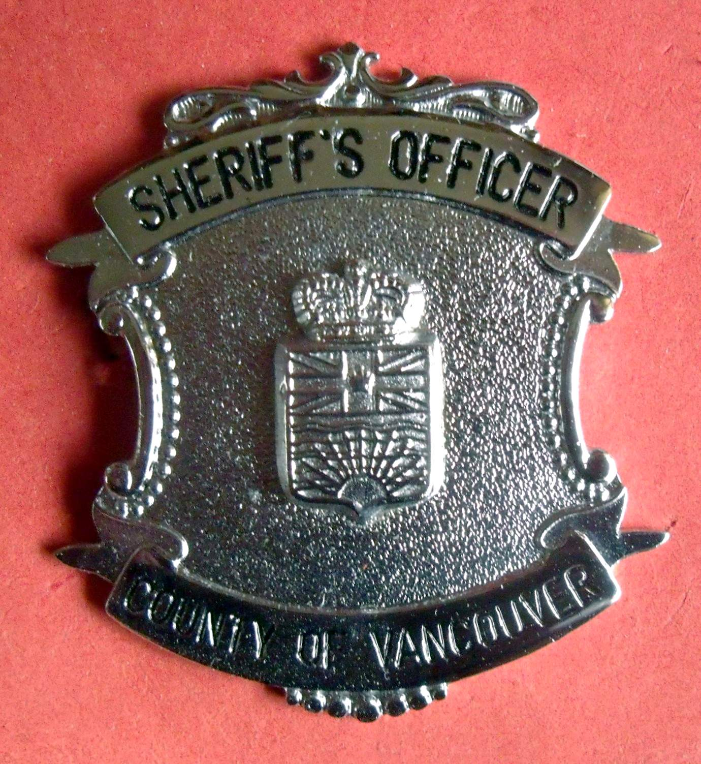 Part of my collection of Canadian Law enforcement insignia The former County Sheriffs in British Columbia were consolidated into the current British Columbia Sheriff Service in 1974